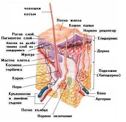 Scheme of human scheme, inscriptions in Bulgarian.